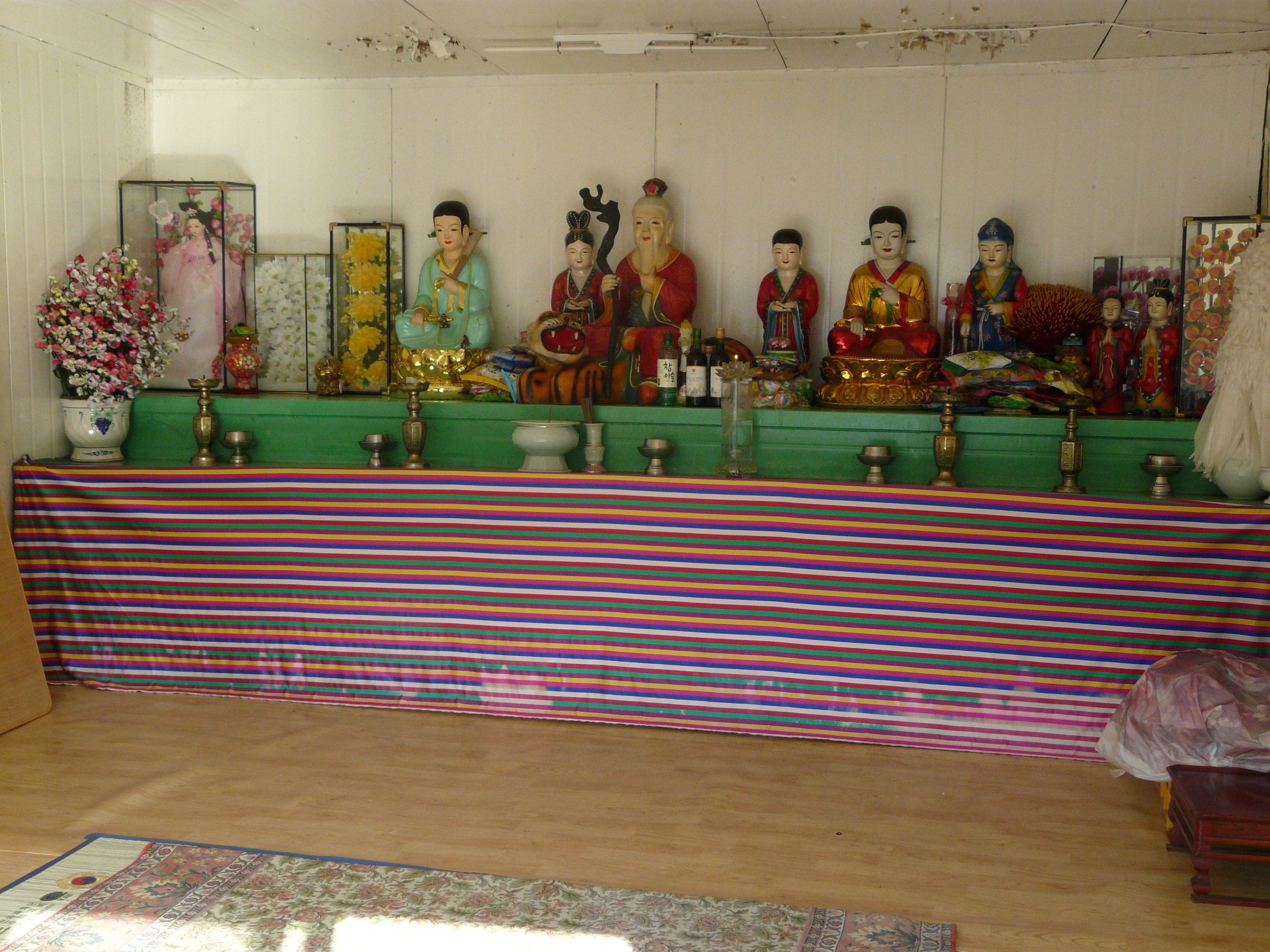 A shamanic temple